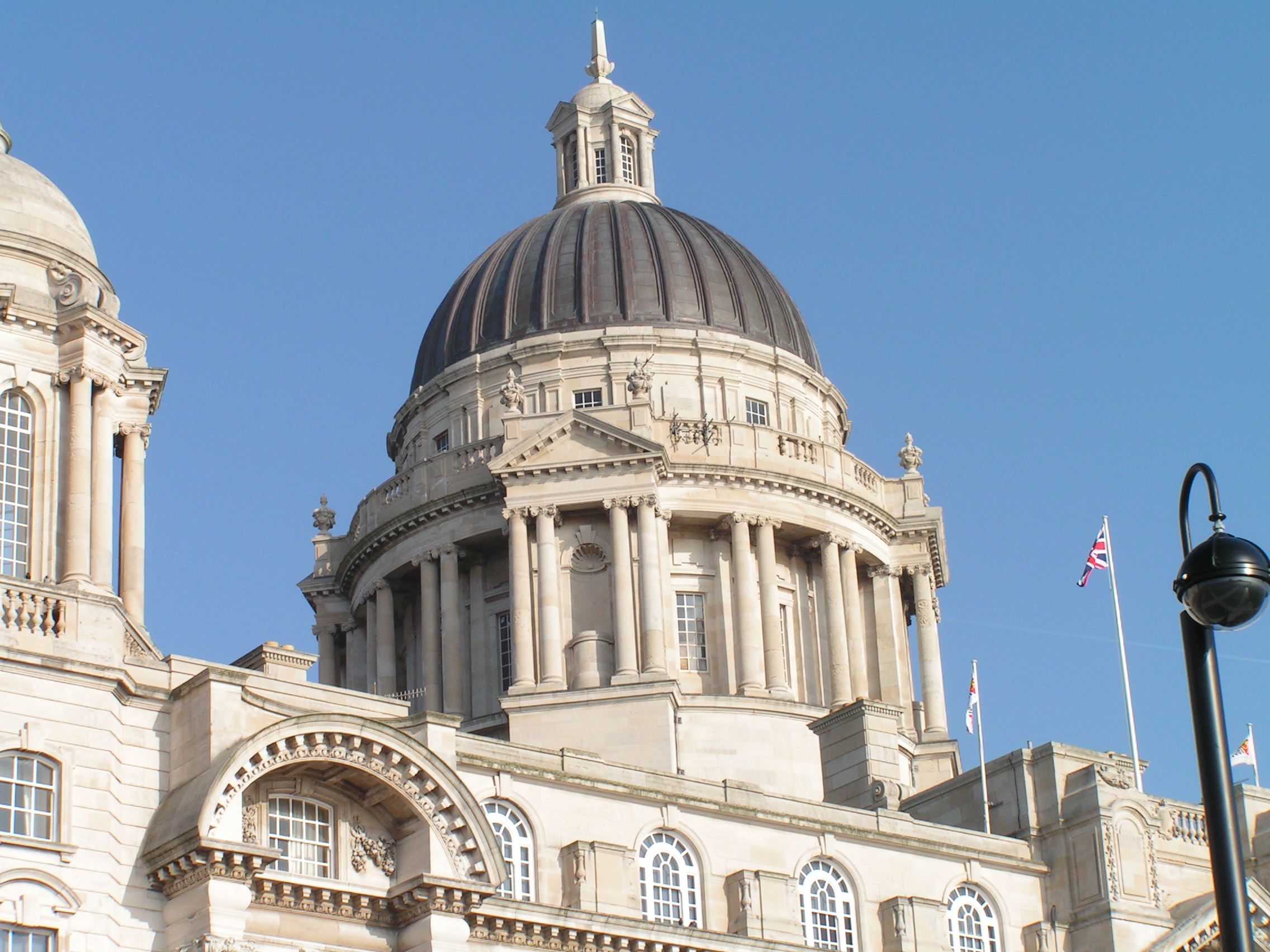 The Port of Liverpool Building (formerly Mersey Docks and Harbour Board Offices, more commonly known as the 'Dock Office'), is a Grade II* listed building located at the Pier Head and along with the neighbouring Liver Building and Cunard Building is one of Liverpool's Three Graces, which line the city's waterfront. It is also part of Liverpool's UNESCO designated World Heritage Maritime Mercantile City. The building was designed by Sir Arnold Thornley and F.B. Hobbs and was developed in collaboration with Briggs and Wolstenholme. It was constructed between 1904 and 1907, with a reinforced concrete frame that is clad in Portland Stone. The building acted as the headquarters of the MDHB for 87 years, from 1907 to 1994, when the company relocated to new premises at Seaforth Dock. In 2001, it was sold to Liverpool-based property developer Downing and between 2006 and 2009 underwent a major £10m restoration that has restored many features of the building to their original glory. Today, the building contains both residential and office space and is considered one of the most prestigious locations in the city. The building is designed in Edwardian Baroque style and is noted for the large dome that sits atop it, acting as the focal point of the building. It is approximately rectangular in shape with canted corners that are topped with stone cupolas. Like the neighbouring Cunard Building, it is noted for the ornamental detail both on the inside and out, and in particular for the many maritime references and expensive decorative furnishings.